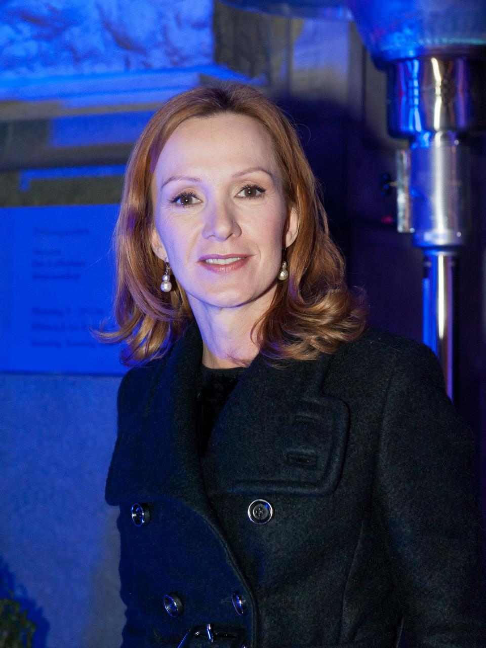 Katja Flint, German actress, Berlinale 2012, ARD Degeto Blue Hour Party